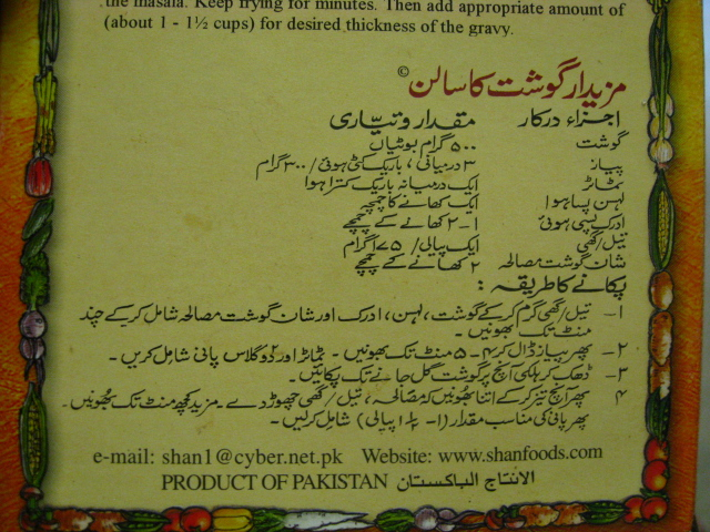 Urdu script on a box for Tasty Meat Curry Recipe (text re-edited by Hindustanilanguage (talk) 08:49, 13 October 2011 (UTC))